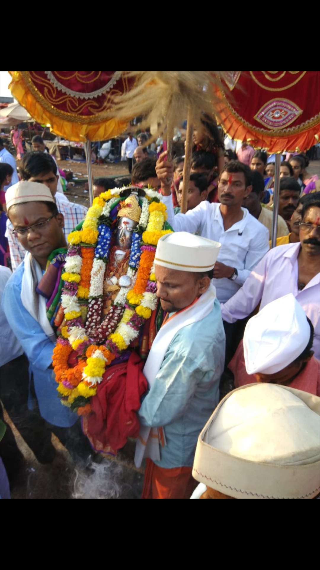 Aryadurga